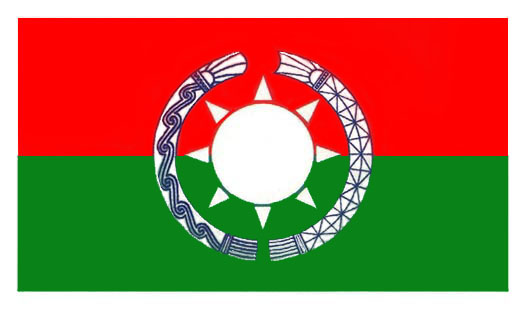 Flag of Kachin State (Myanmar)